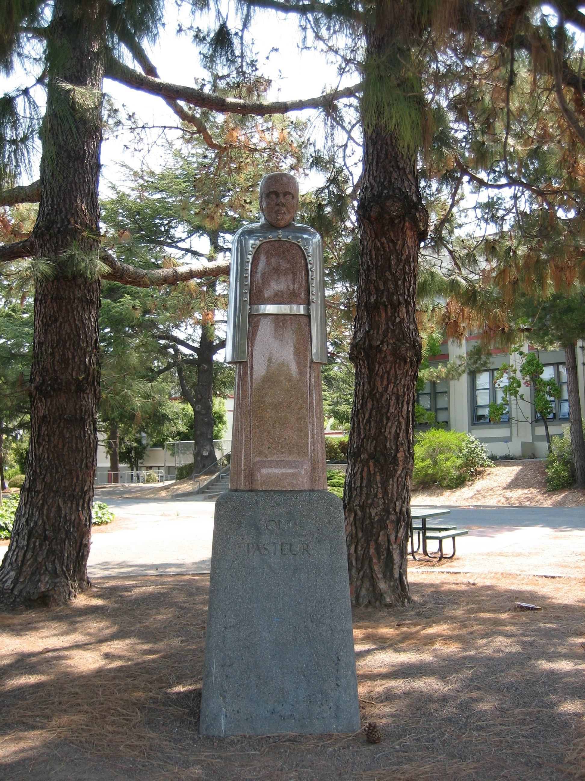 Digital photograph of Louis Pasteur statue, San Rafael High School